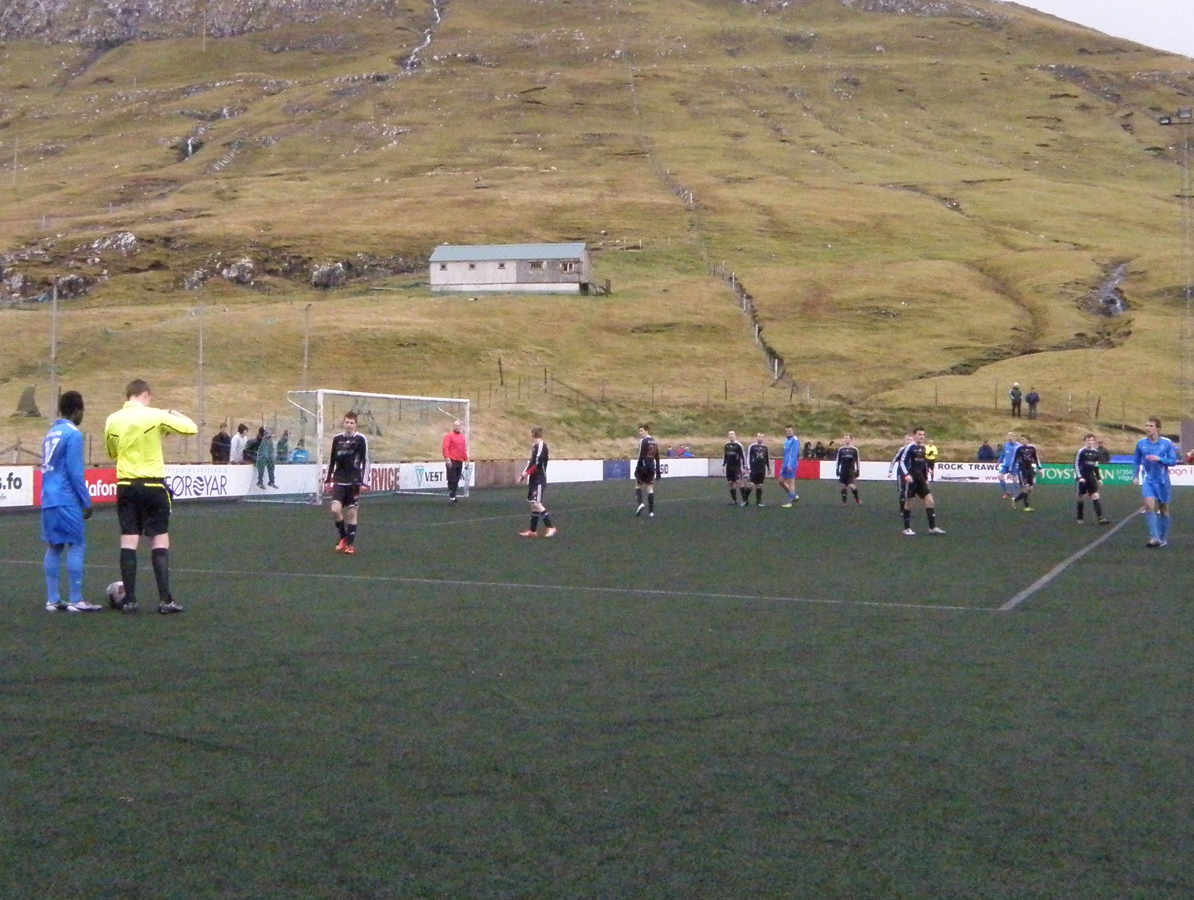 Football (soccer) match in the second best division of the Faroe Islands, 1. deild, between FC Suðuroy and 07 Vestur. This was the final match in the 2011 season, played on 22 October 2011. Føroyskt: Fótbóltsdystur í næstbestu mansdeildini (1. deild) í oktober 2011. Hetta var seinast dysturin tað árið. FC Suðuroy vann dystin 7-0 og var tryggur uppflytari. Størri spenningur var um 2. plássið, og endaði tað við at TB flutti upp saman við FC Suðuroy. 07 Vestur hevði lið í bestu deildini tað árið, so hetta er næstbesta liðið hjá 07 Vestur.